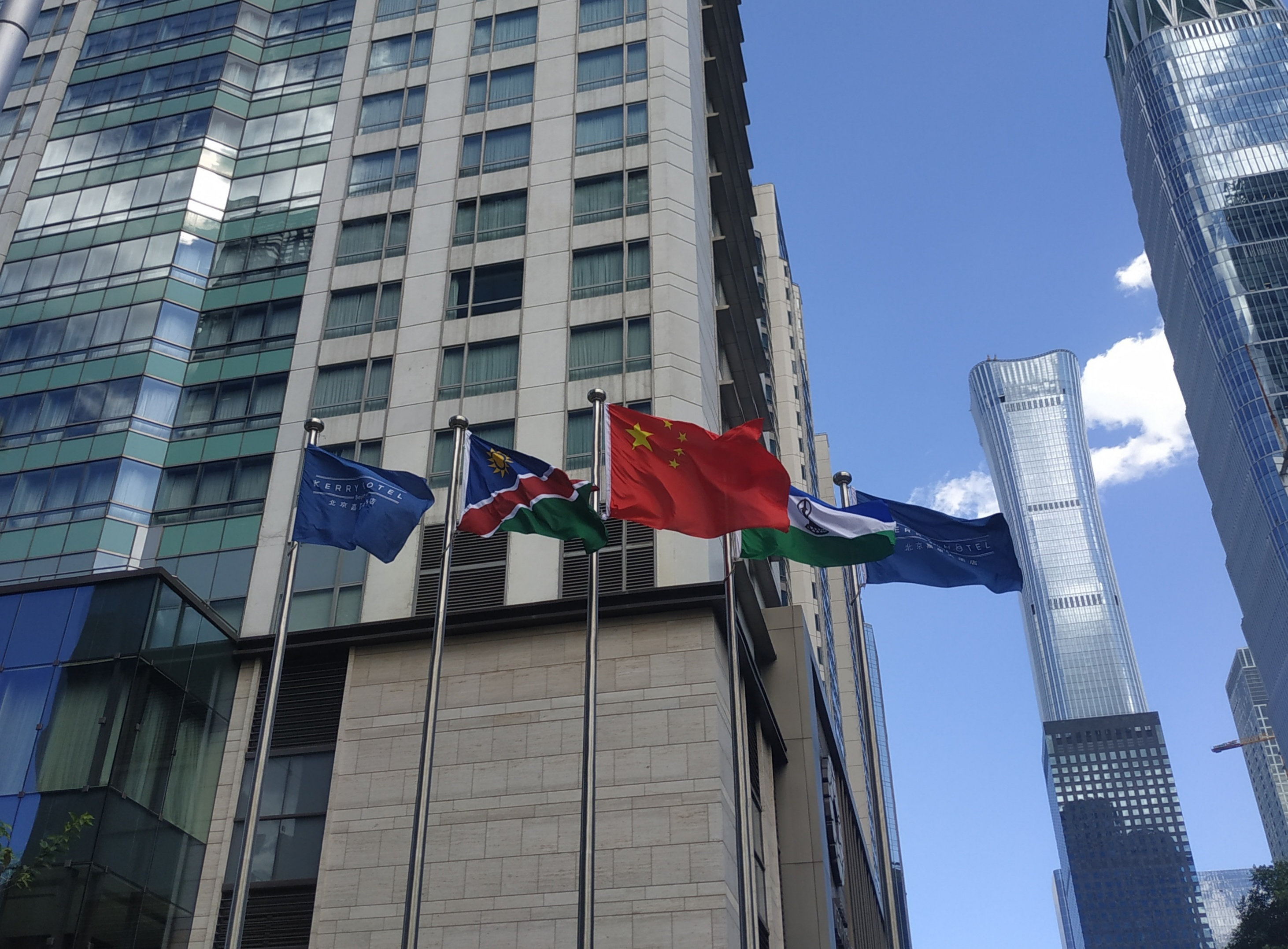 Leader of Namibia and Lesotho were in residence at Kerry Hotel Beijing during 2018 Beijing Summit of FOCAC.